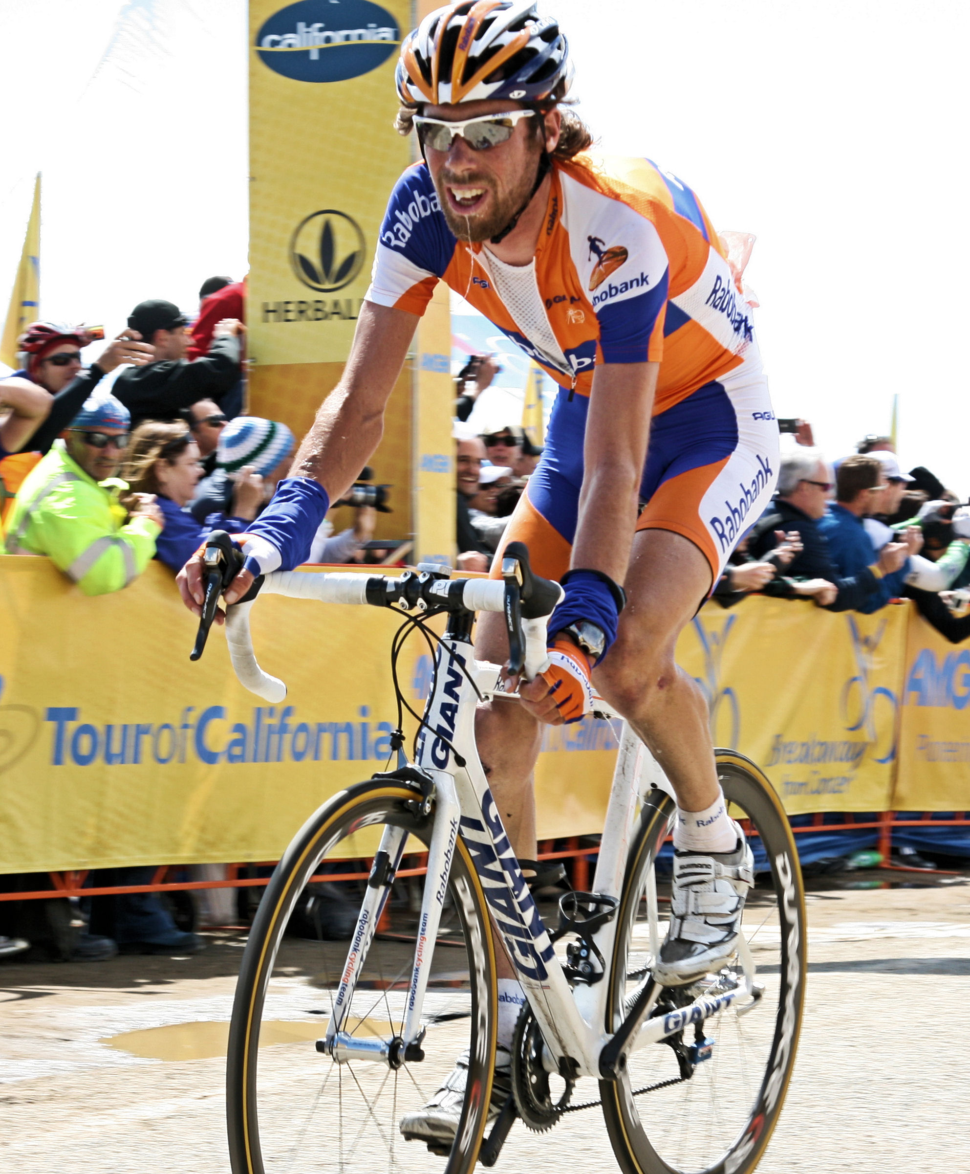 Laurens Ten Dam for Rabobank. Aka "Aqualung" ('Snot running down his nose...') 2011 Amgen Tour of California Stage 4 Finish at the top of Sierra Road, San Jose, California. You're free to use this photo, but you MUST attribute to Richard Masoner / Cyclelicious and (if an online publication) link to I biked 30 miles for this shot, so I'd like something for my effort. Thank you.